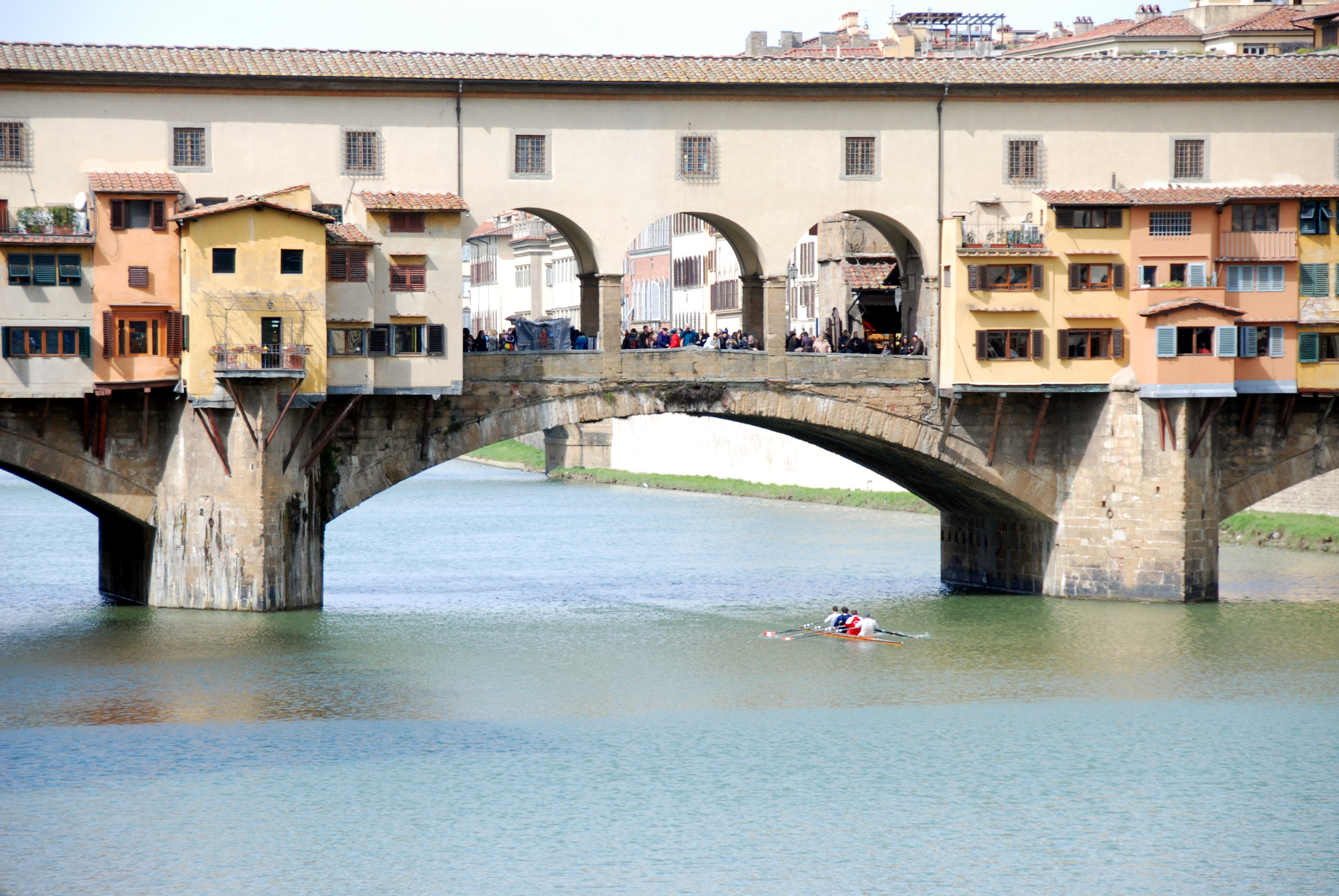 A four-person scull passes under the middle span of Florence's Ponte Vecchio